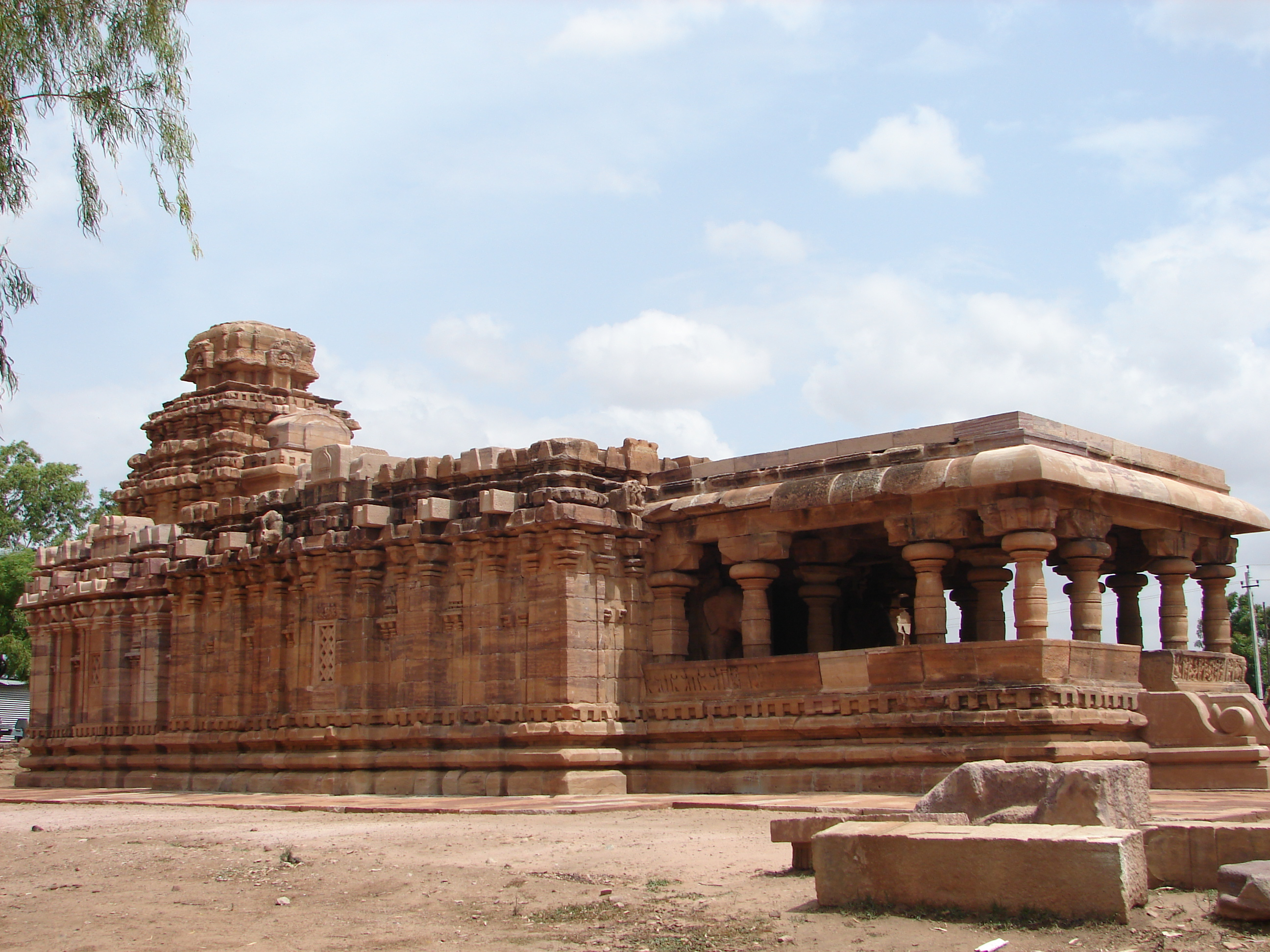 The Jain temple (called Jain Narayana temple), at Pattadakal, a UNESCO world heritage site in Karnataka, India, was constructed by either Rashtrakuta Dynasty King Amoghavarsha I or his successor Krishna II in the 9th century.